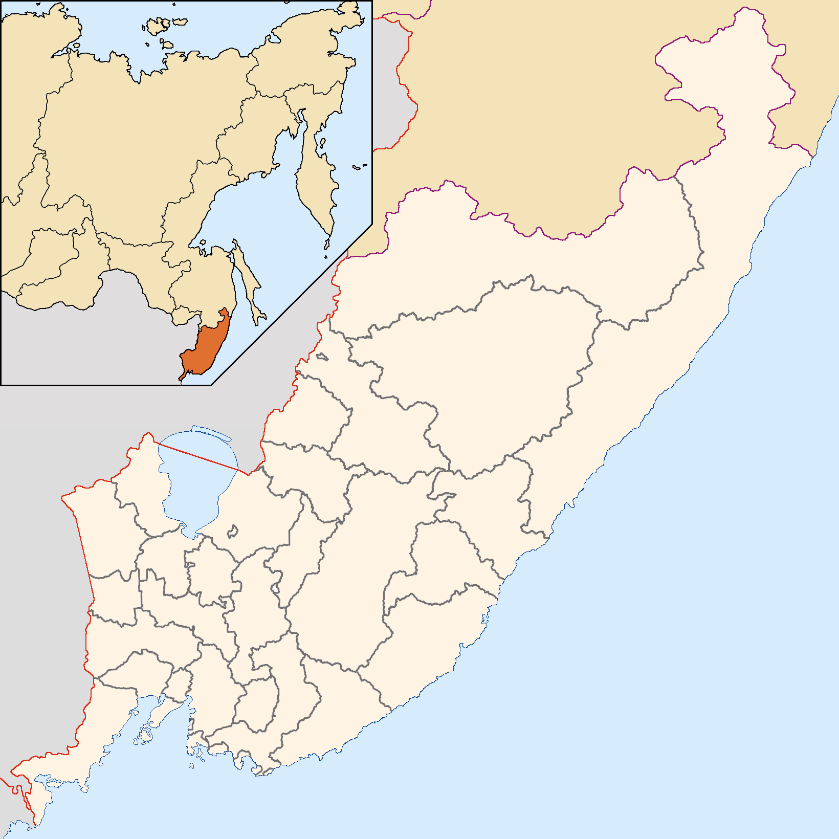 Blank map of Primorsky krai with district subdivision, and with position of Primorsky krai on the map of Russia.